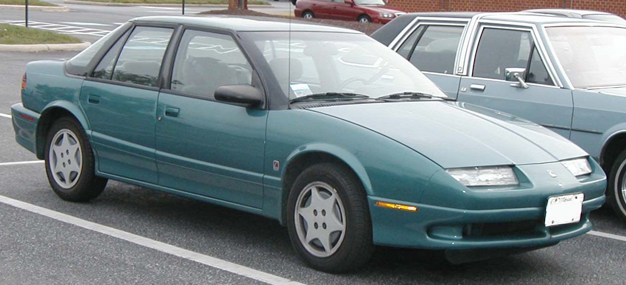 1991-1995 Saturn SL2 photographed in USA.